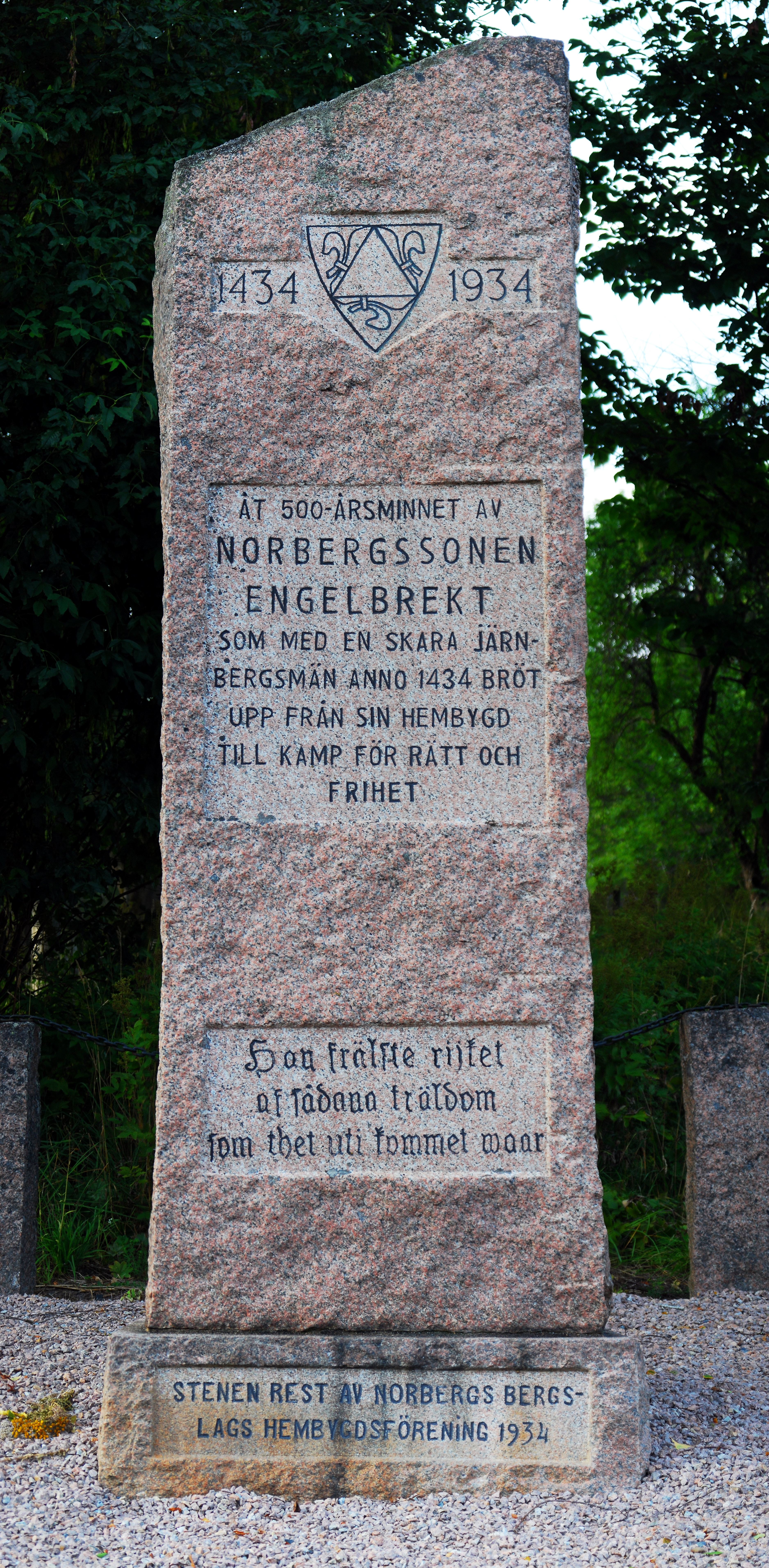 Memorial stone 500 years after the Engelbrektsupproret year 1434, Sweden